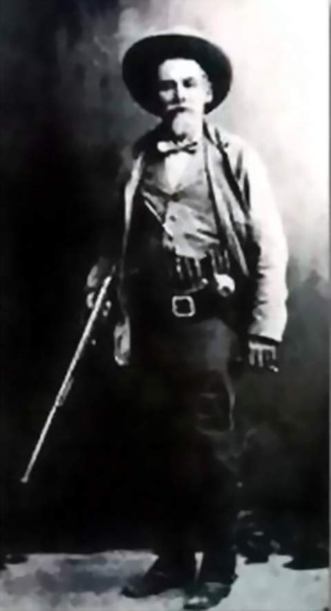 John Horton Slaughter (1841-1922), who served as a Texas Ranger, an Arizona sheriff, and a US Marshal. Circa 1880